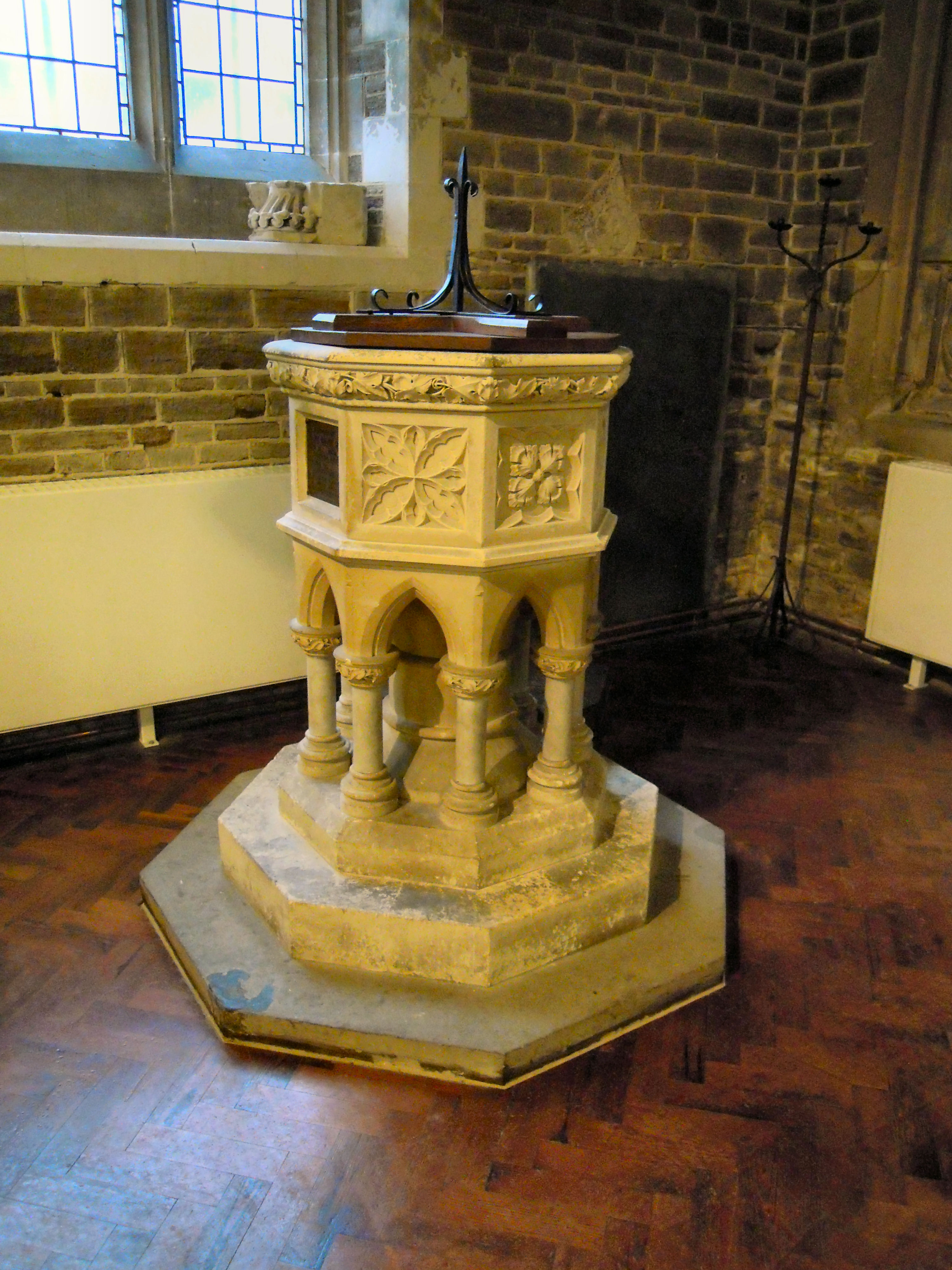 The baptismal font at the Church of All Saints in Campton in Bedfordshire